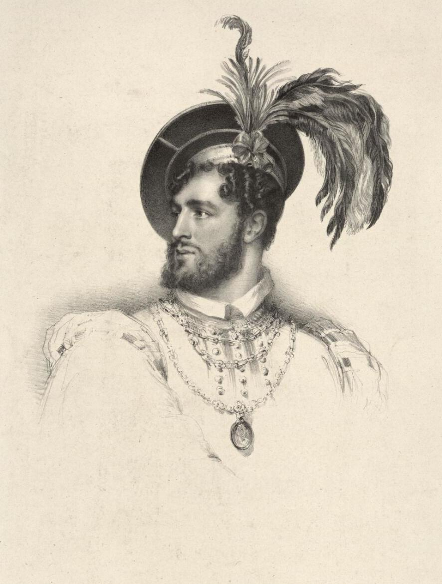 A portrait from the Welsh Portrait Collection at the National Library of Wales. Depicted person: Charles Kemble – Welsh actor